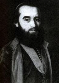 Metropolitan bishop of Sremski Karlovci, Stefan Stratimirović.